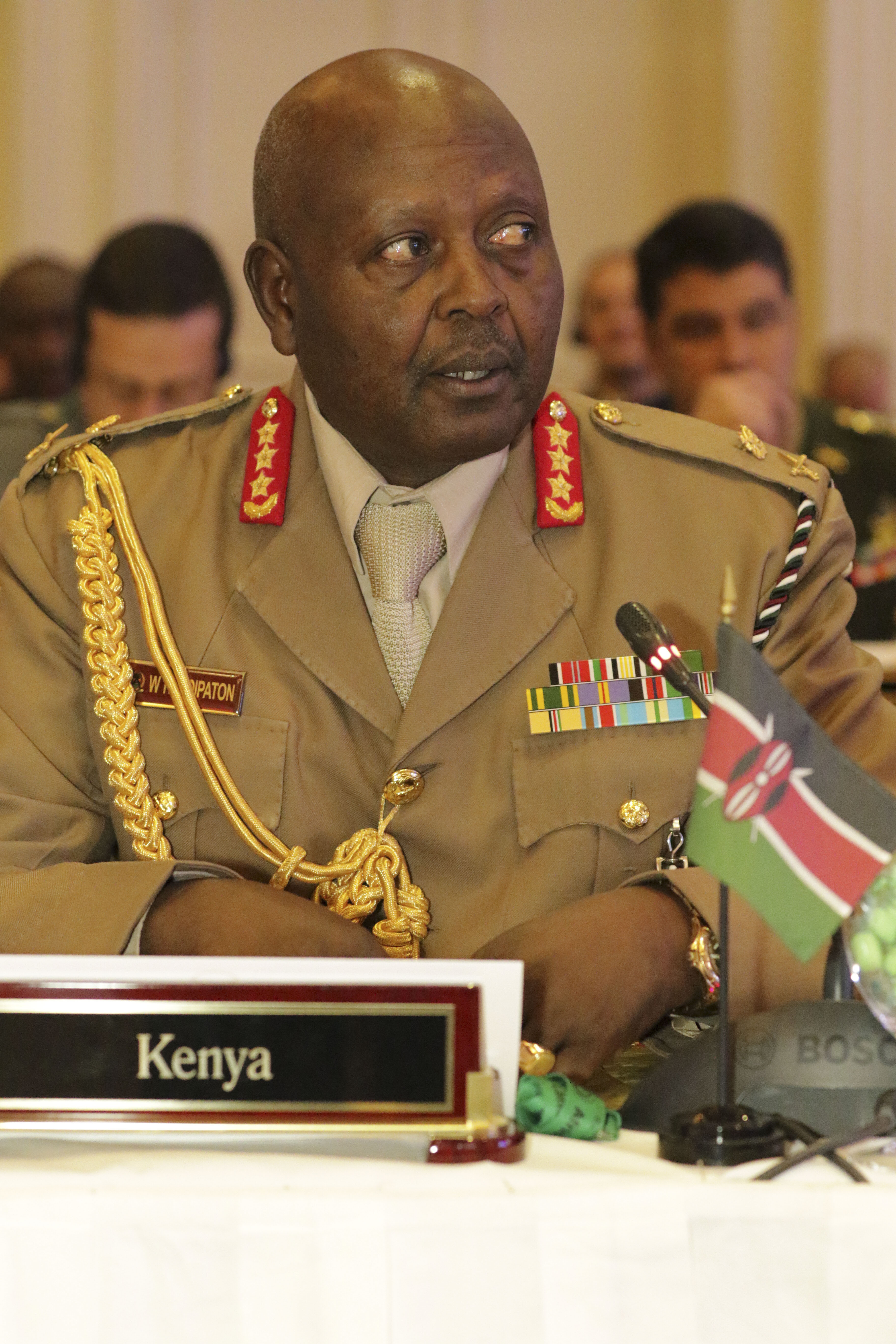 African Land Forces Summit 2019